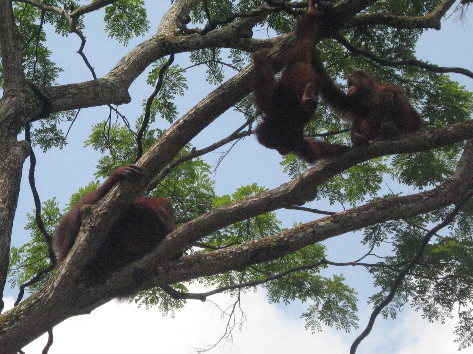 Orang utans at the Singapore Zoo. Taken by Terence Ong in November 2006.